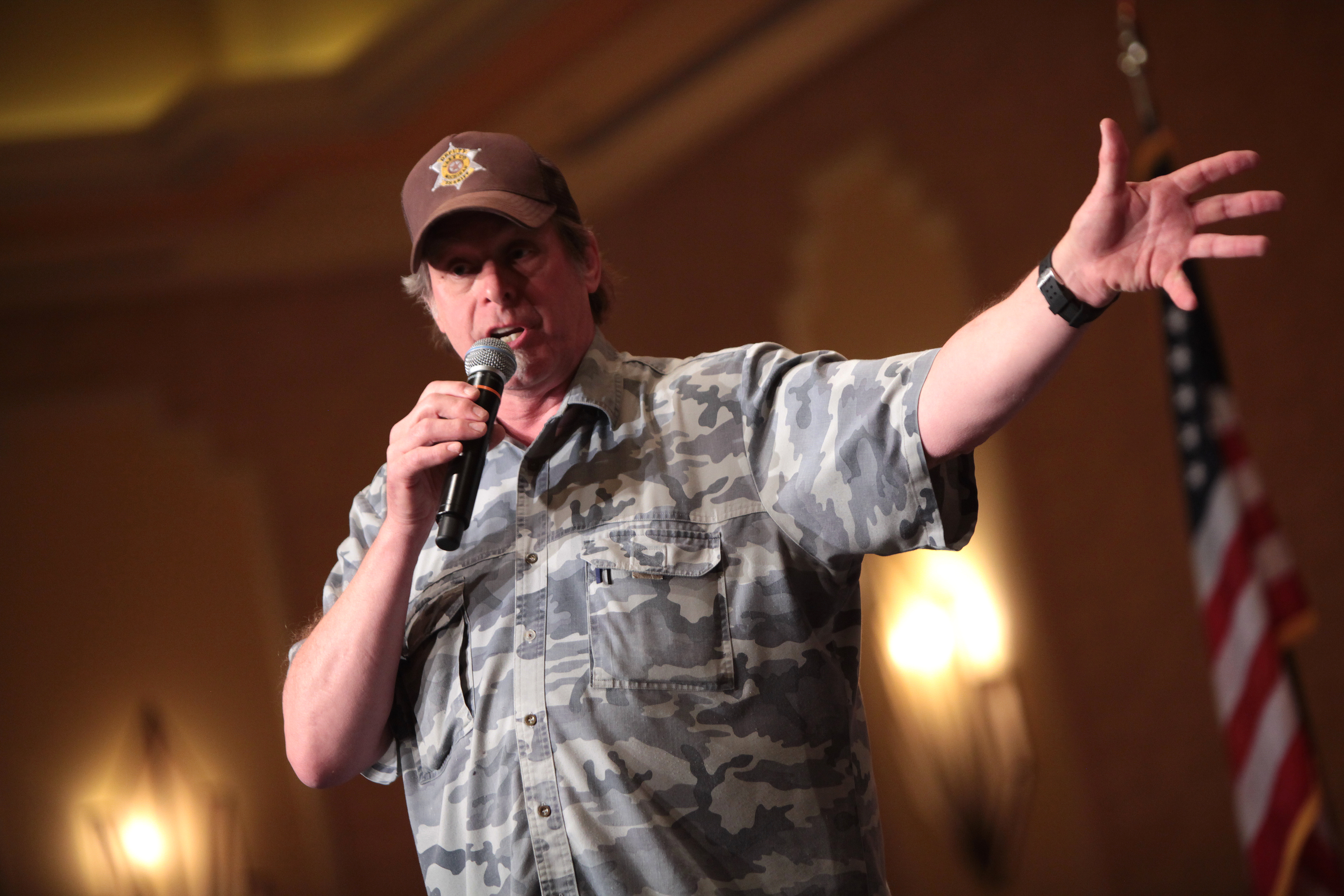 Ted Nugent speaking at the 2015 Maricopa County Republican Party Lincoln Day dinner in Scottsdale, Arizona.